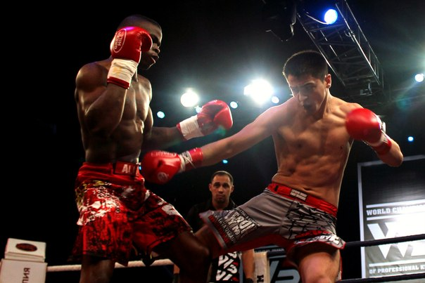 Boi_W5